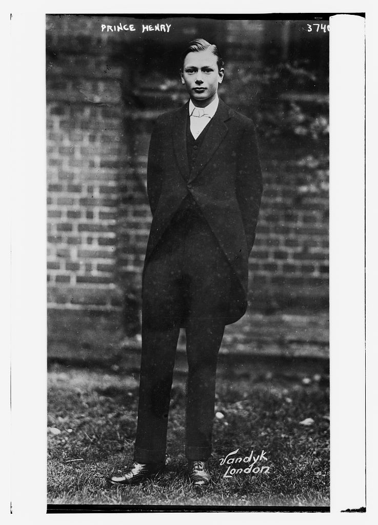 Prince Henry, Duke of Gloucester circa 1916